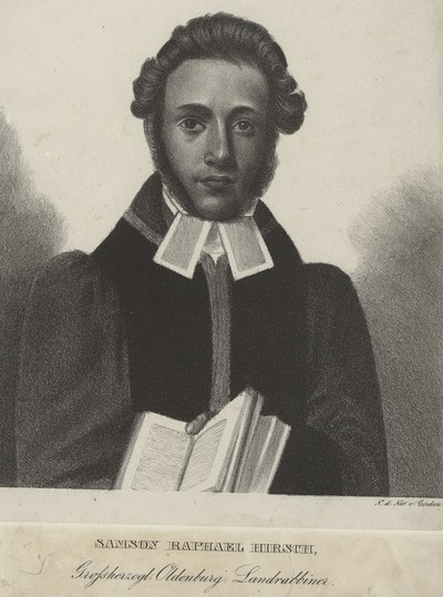 S.R. Hirsch in Oldenburg (between 1830 to 1841)